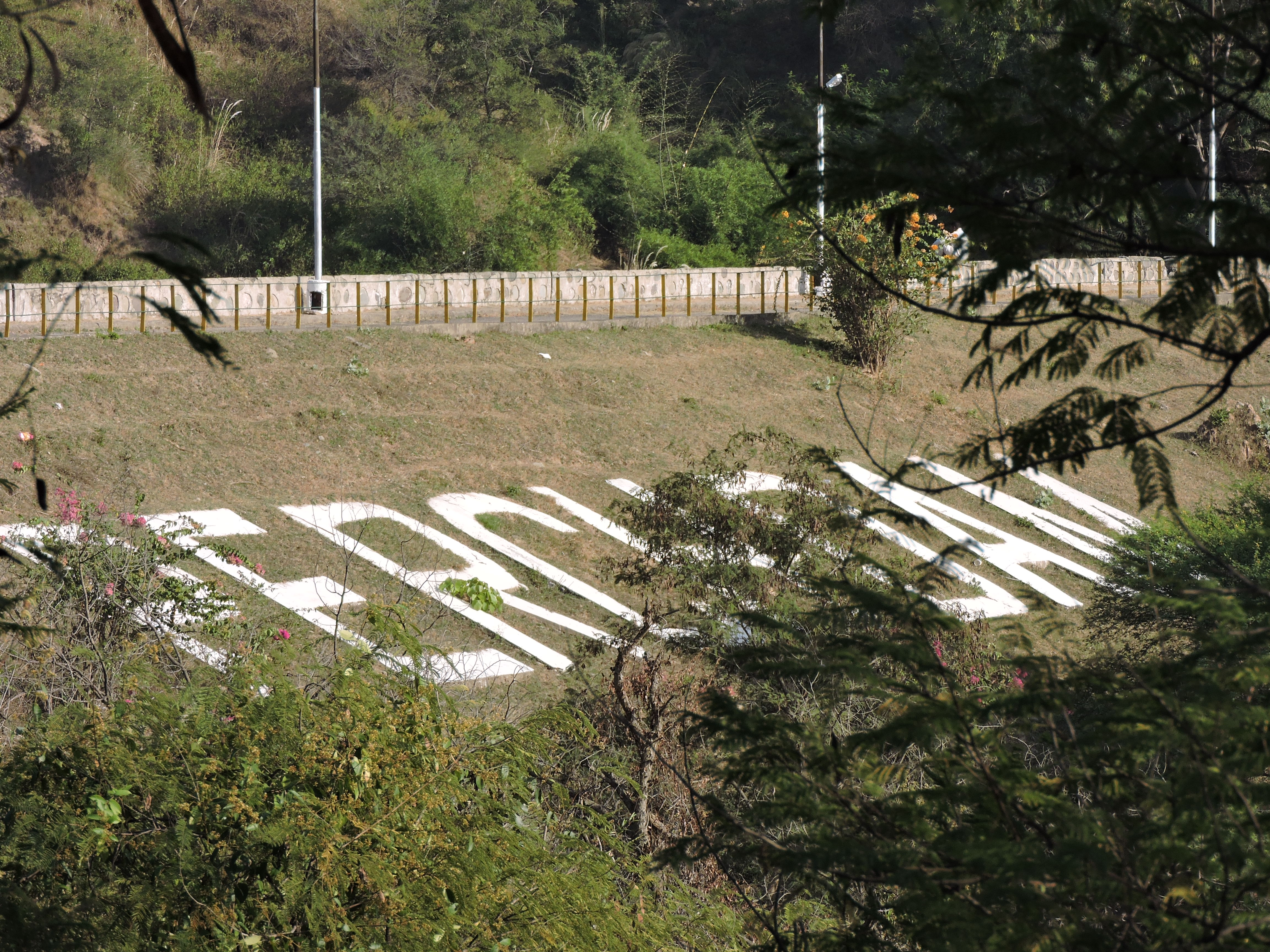 Perch Dam, Village Perch, district Mohali, Punjab, India